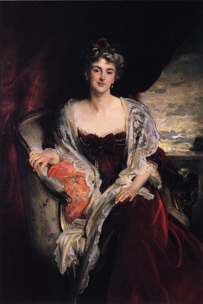 Mrs. Augustus Allusen (Osma Mary Dorothy Stanley) John Singer Sargent -- American painter 1907 Private collection Oil on canvas 152.4 x 101.7 cm (60 x 40.04 in.) Jpg: .the-athenaeum